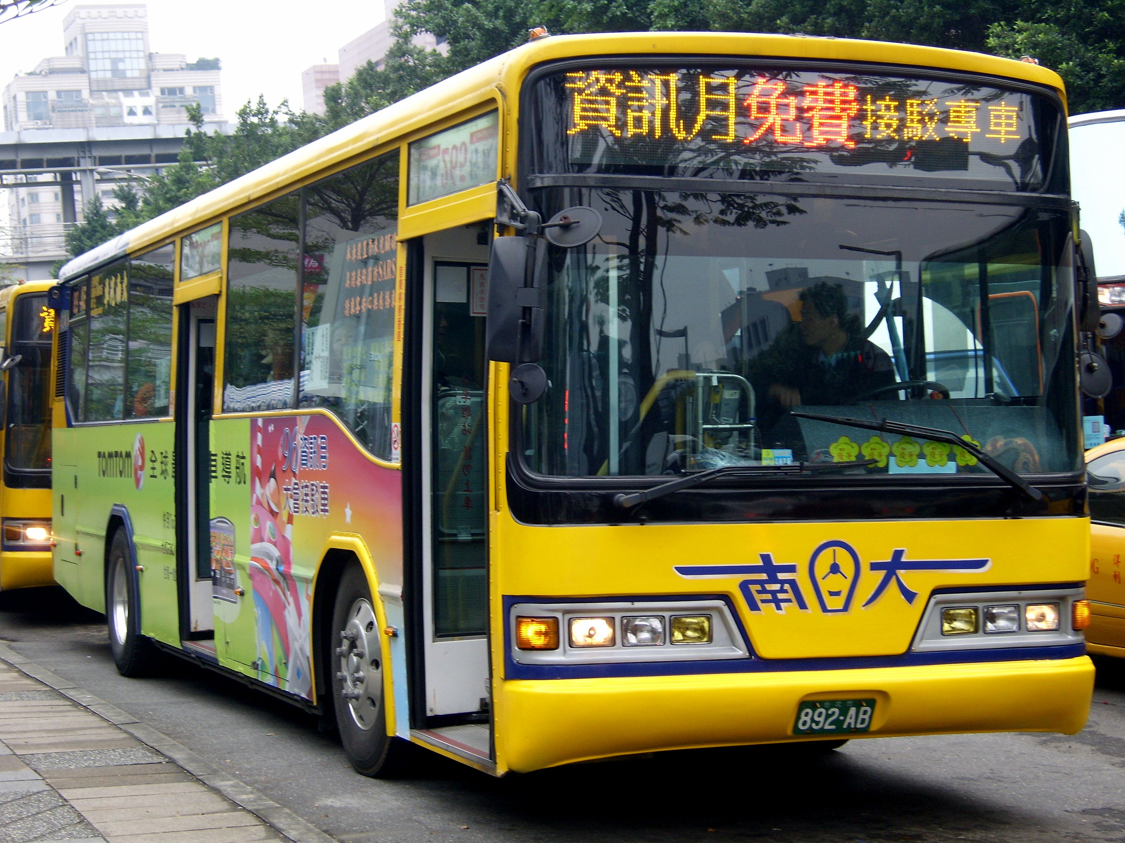 2007 Taipei IT Month: Shuttle Bus by Da-nan Bus Co., Ltd.